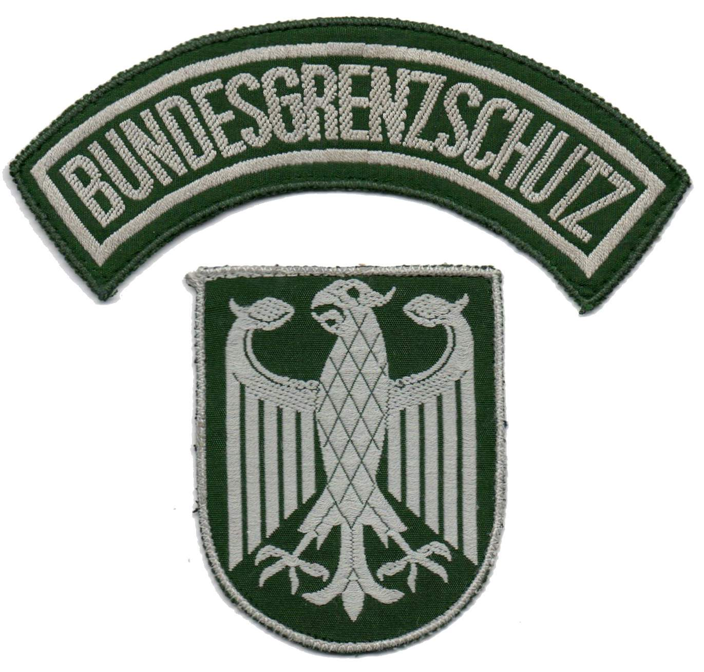 Part of my collection of EUROPEAN law enforcement insignia This agency, formerly the (West) German Border Police Service, is now re-titled Bundes polizei and is the German Federal Police.